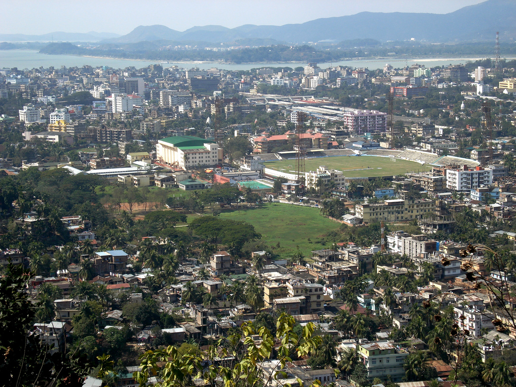 City view from the Gandhimandap, Guwahati. Looks great when viewed large !